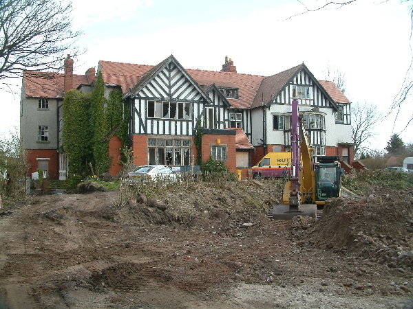 Rosefield Hall is a Victorian Mansion House in Southport, UK. This photo taken in 2007 was when work began to restore and extend the building into appartments.